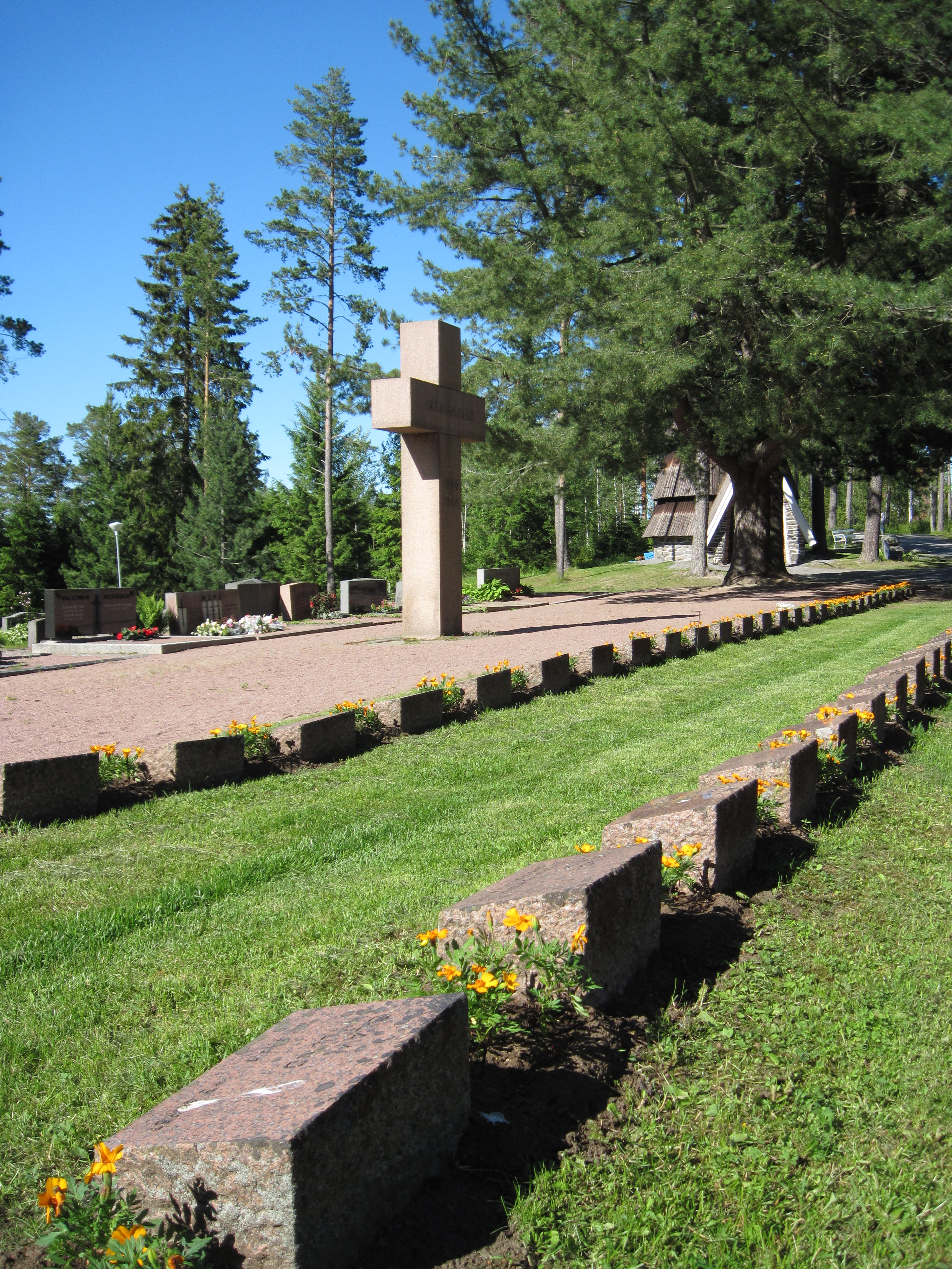 Military cemetary at church in Karkku, Finland